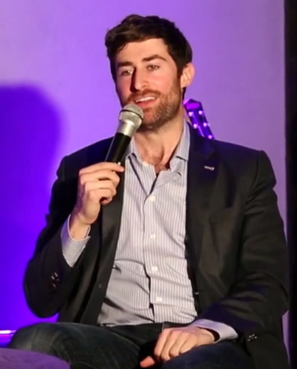 Talk show host Scott Rogowsky on the February 2014 live episode of Dale Radio. Highlights from the February 2014 live episode of Dale Radio Host: Dale Seever Music Director: Andrew Bancroft Guests: Sue Smith Scott Rogowsky Brooke Van Poppelen Eliot Glazer Shot at The PIT Underground, New York City Shot and edited by Bill Scurry/AmericanCaesar Enterprises